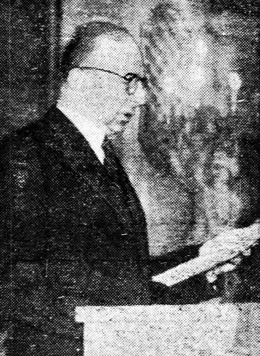 Adam Koc (1891-1969)